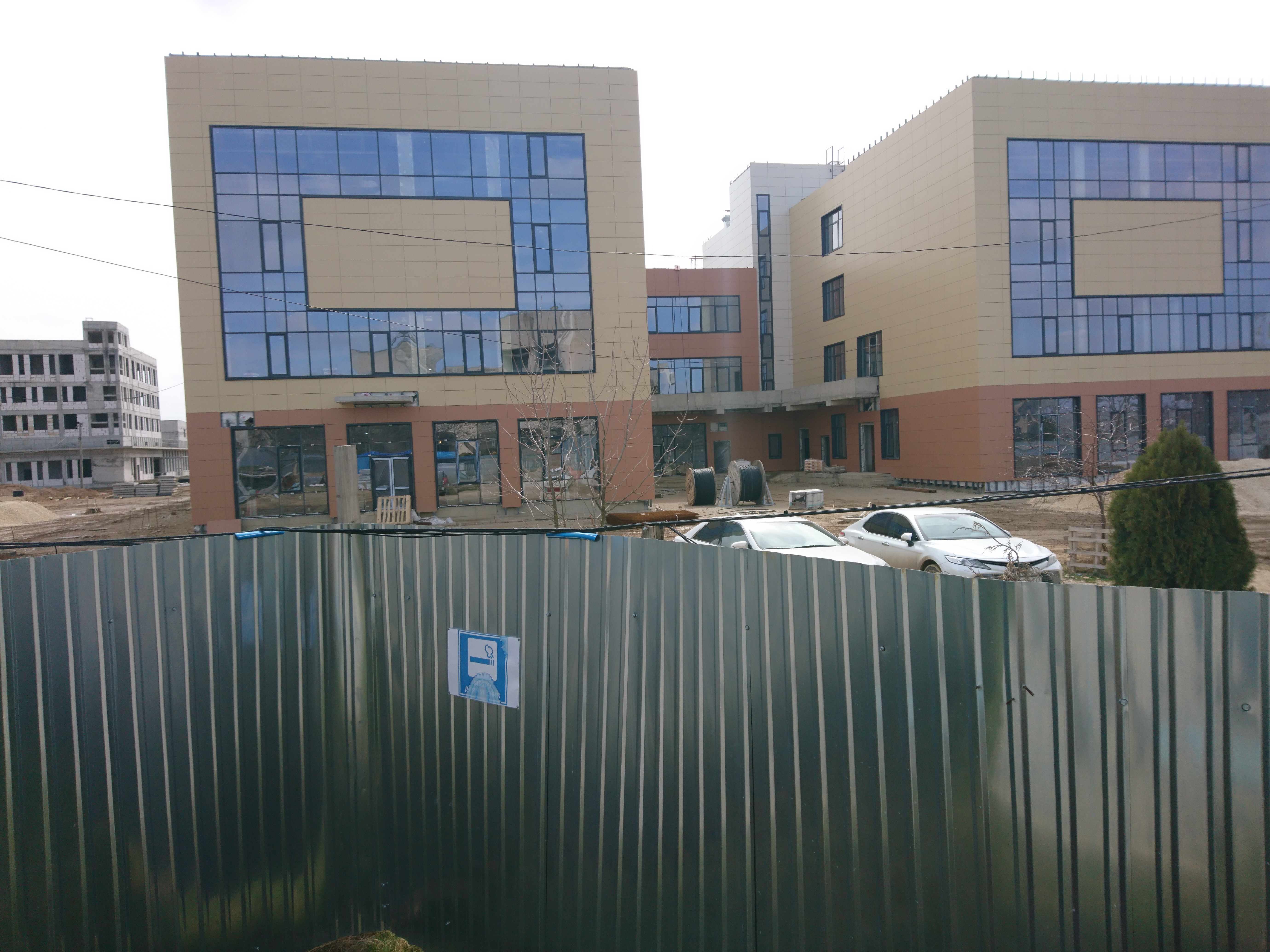 Development of the first stage in 2019